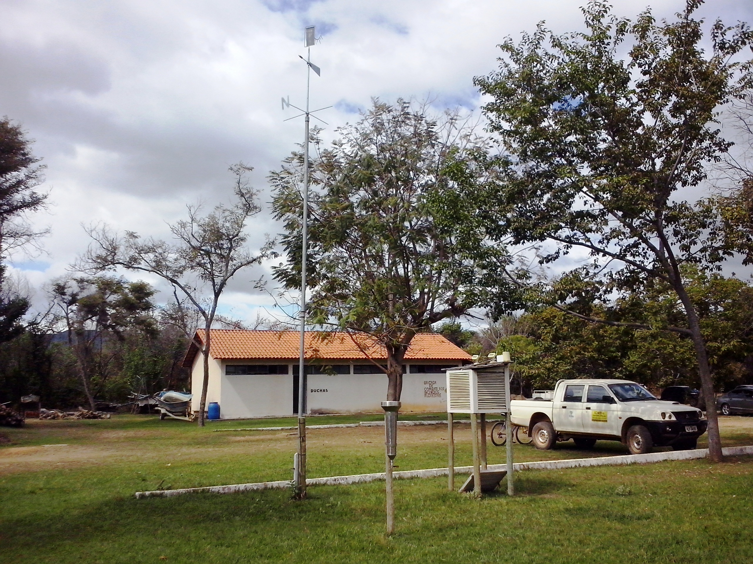 Weather station of the Serra do Cipó National Park, in Santana do Riacho, Minas Gerais, Brazil.